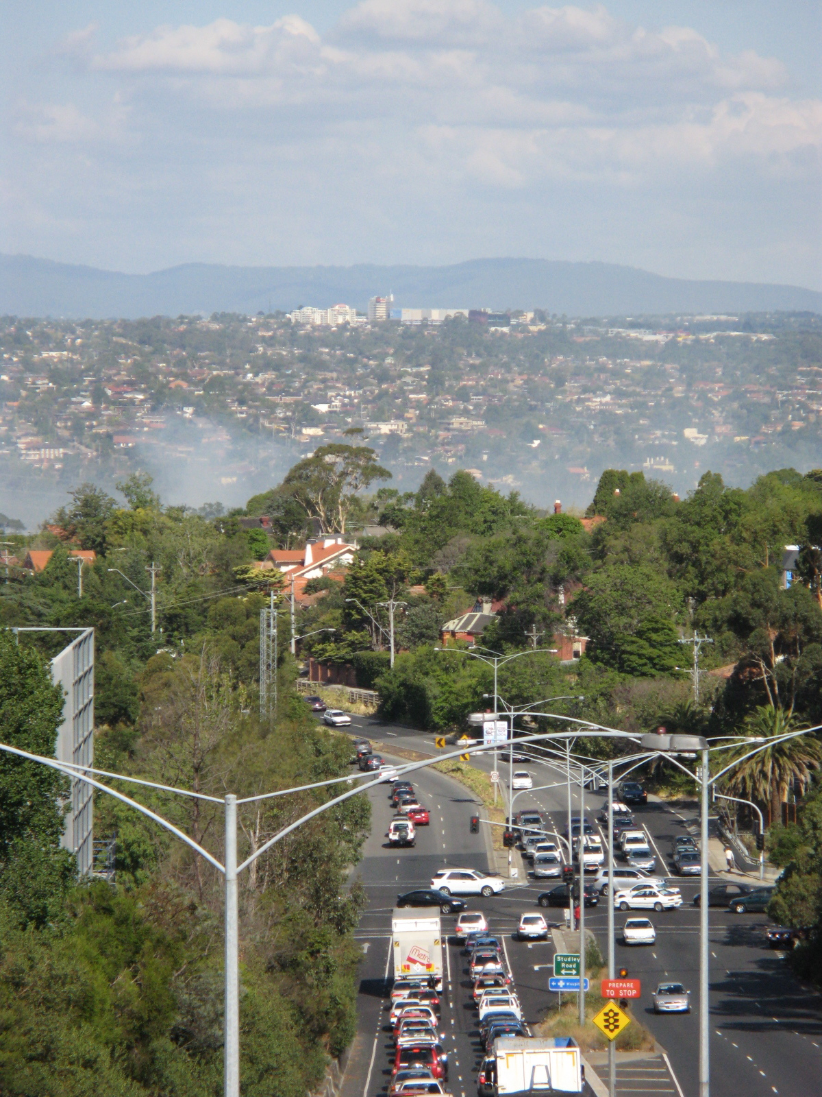 Smoke from the bushfire in the Yarra Flats. Photo taken by myself on February 12, 2009, from above the Bell/Banksia Link, Heidelberg.